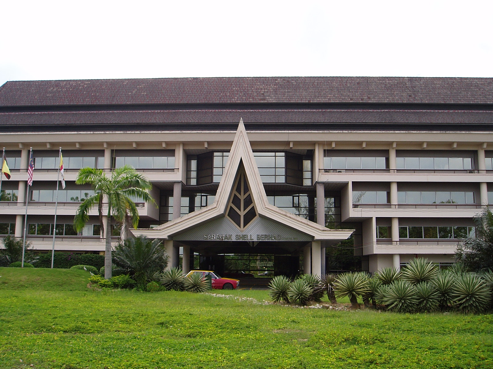 Sarawak Shell Berhad, Miri, Sarawak, Malaysia